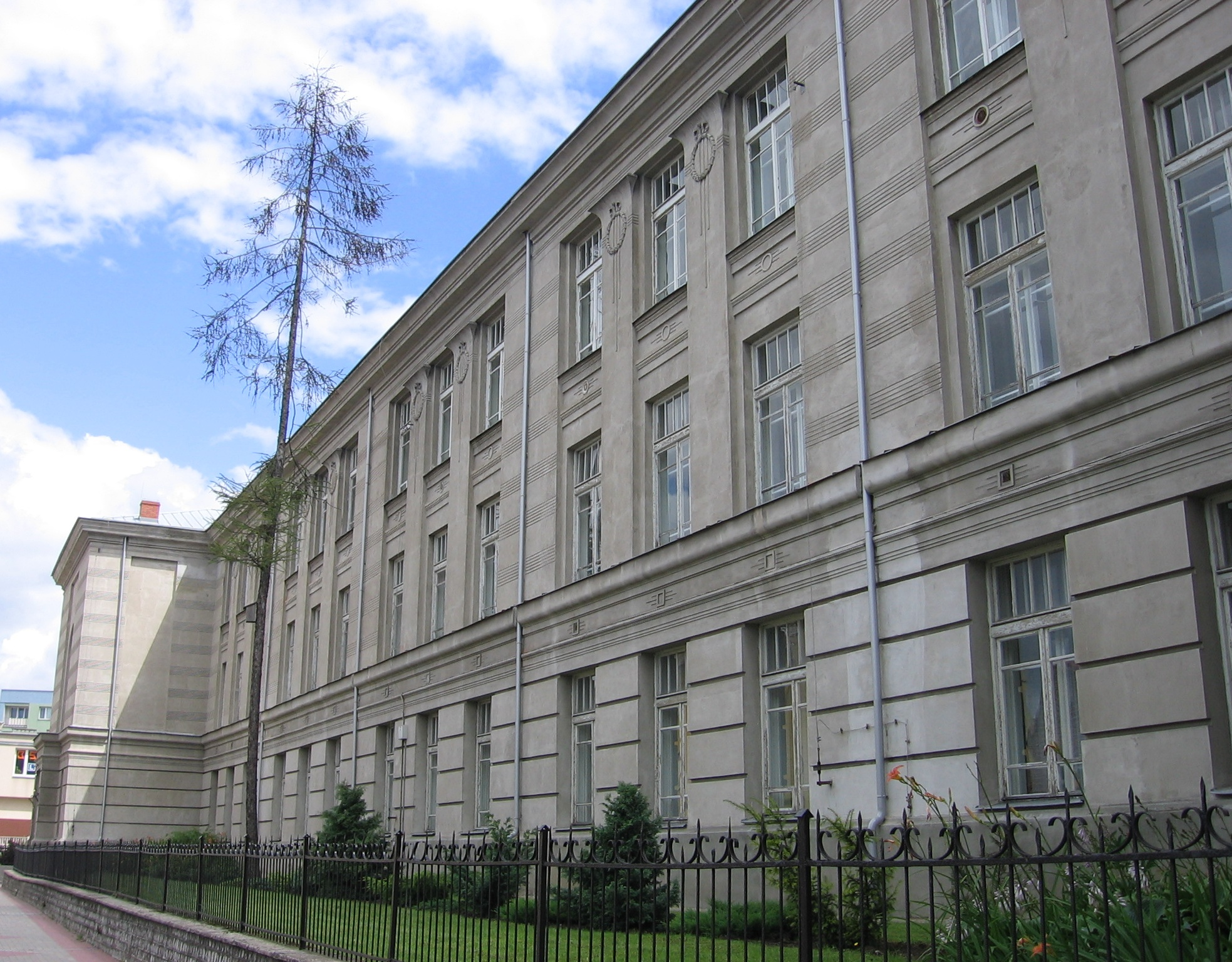 Building of 1st grammar school with name Tadeusz Kościuszko in Łomża